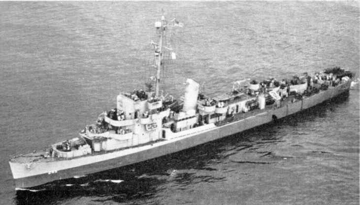 The U.S. Navy destoroyer escort USS Sloat (DE-245) underway at sea, circa in 1944.